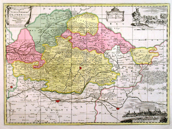 Detailed map of the Duchy of Oleśnica (Ducatus Olsnensis) a.k.a. Duchy of Oels in Poland, entitled ‘DUCATUS IN SILESIA INFERIORE OLSNENSIS NOVISSIMA DELINEATIO....’, also showing the cities of Wrocław and Brzeg. Two cartouches: scene with Roman warrior in top right corner, and a view of the city of Oleśnica in the lower right corner.